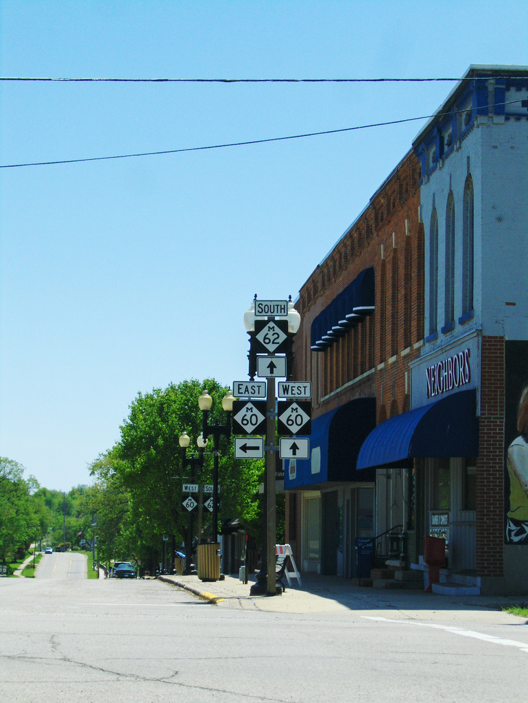 Signs for M-60 and M-62 in Cassopolis, Michigan.